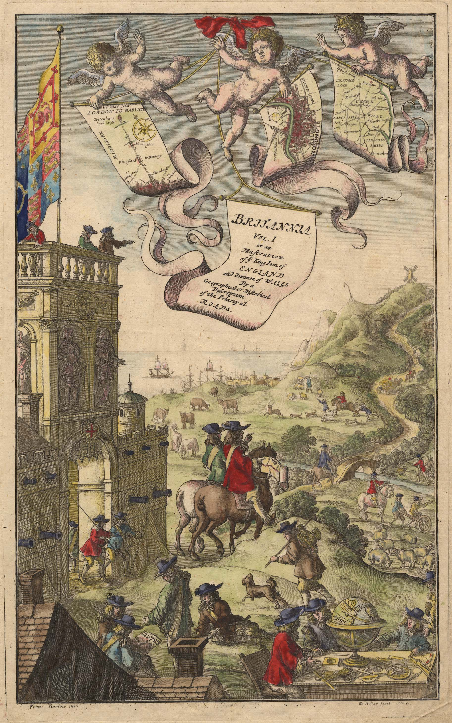 Frontispiece of John Ogilby's Britannia (1675). Drawn by Francis Barlow, engraved by Wenzel Hollar.